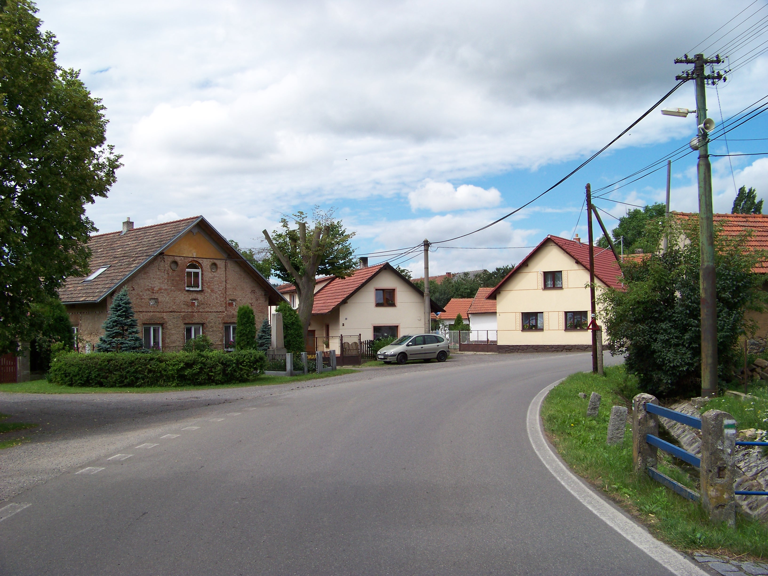 Radětice, Příbram District, Central Bohemian Region, the Czech Republic. Houses No. 1, 2 and 3. - OpenStreetMap(Info)